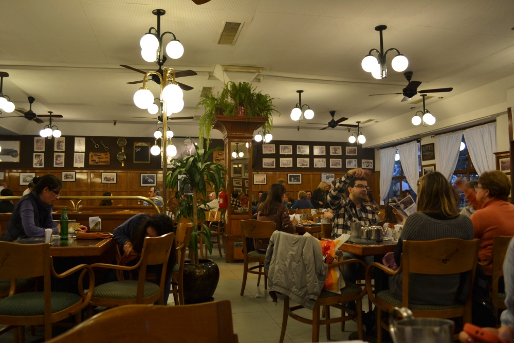 La Biela Coffee, in the middle of Recoleta. One of the most traditional coffees.